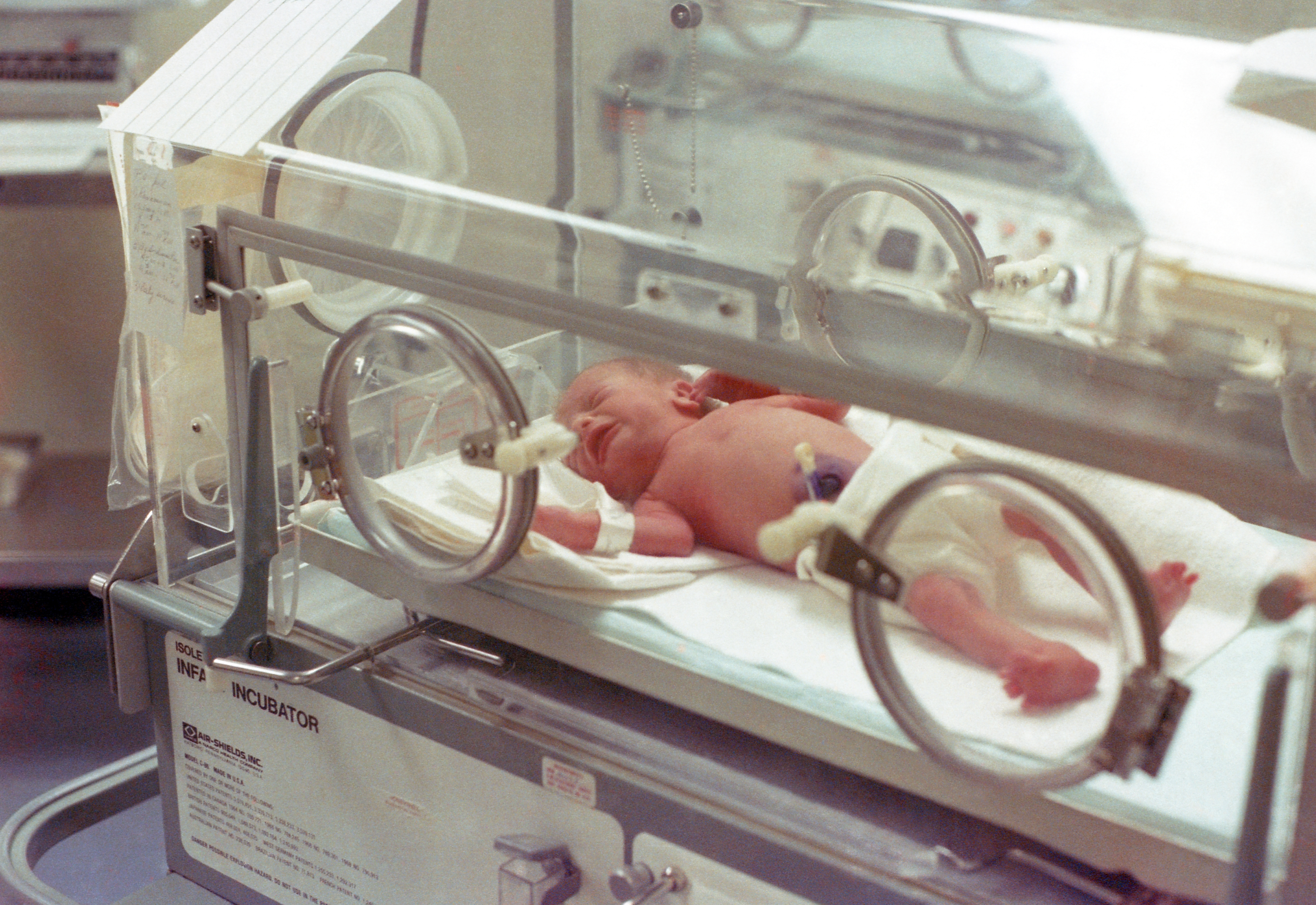 A premature baby in an infant (neonatal) incubator, also known as an Isolette. Taken in 1978 in a US hospital. From family archive, scanned from a 35mm negative.